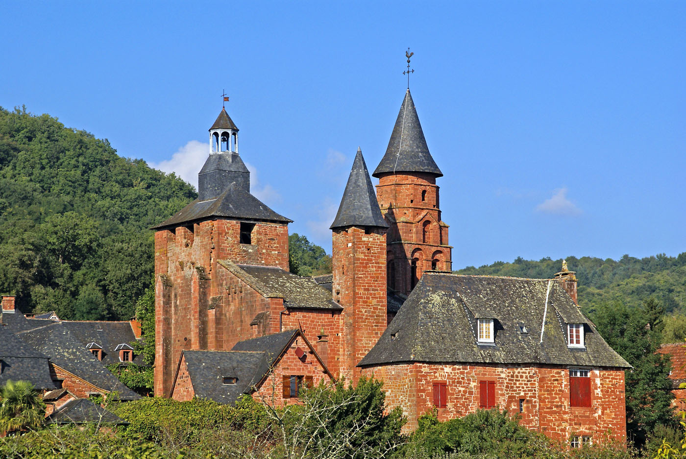 The village of Collonges-la-Rouge, Limousin, France.